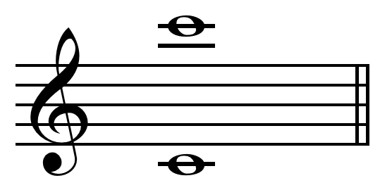 Perfect fifteenth on C = C". Just: 4:1 = 2400 cents. Equal-tempered: 224/12:1 = 2400 cents.